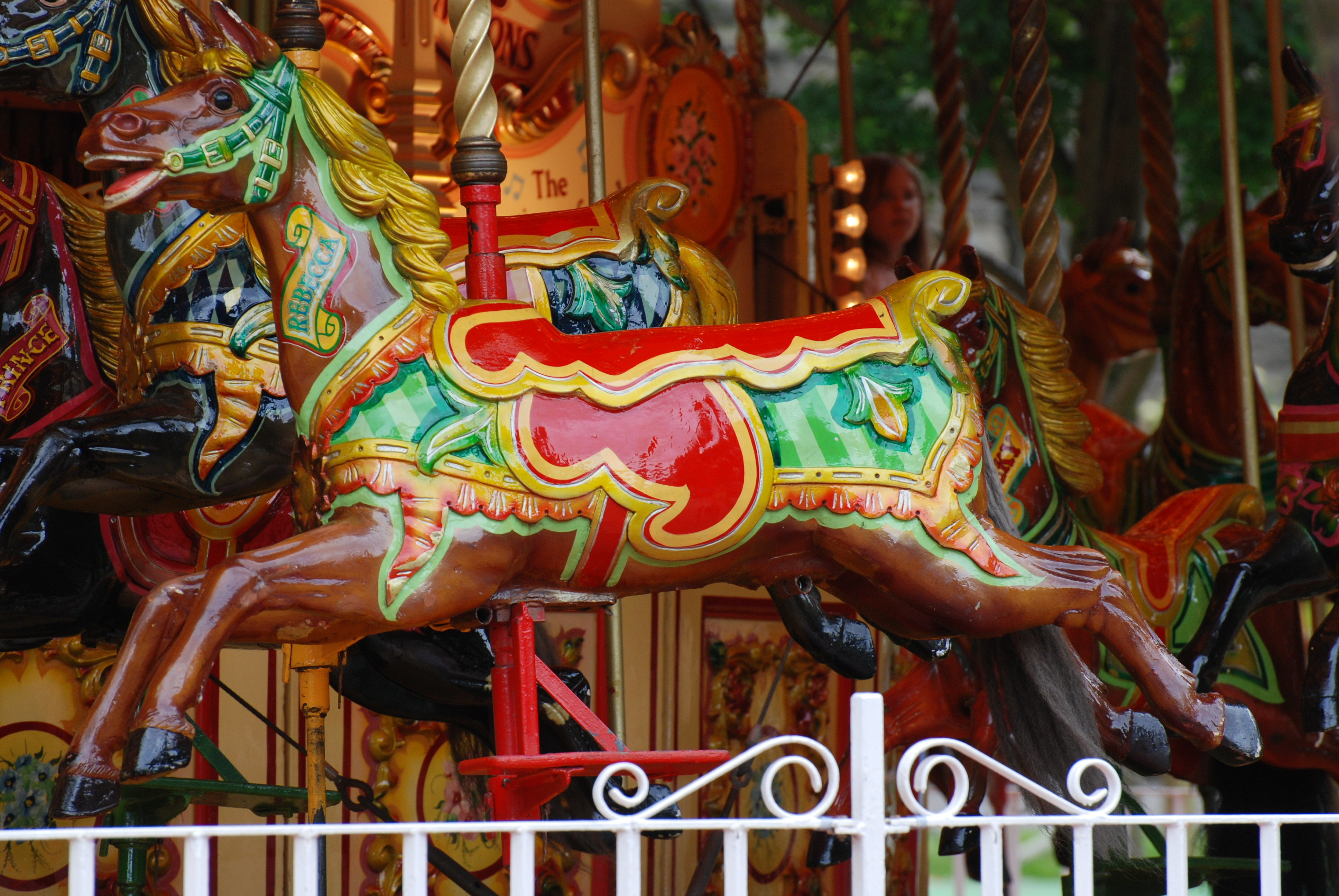 Horse on Carousel, Princes Street Gardens, Edinburgh